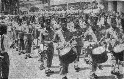 Funeral parade of the Congolese army for Colonel Kokolo